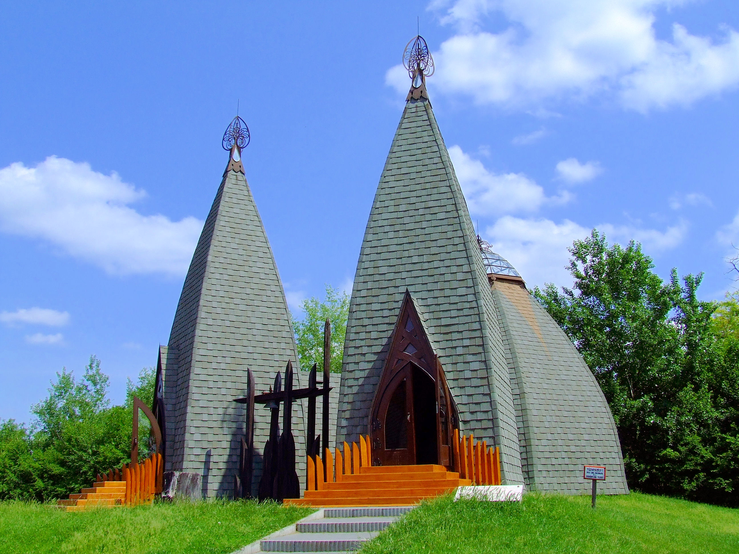 The Church of Forests. It was constructed in the spirit of ecumenism. Senior clergymen representing the historical churches in Hungary consecrated it on august 20th 1992.